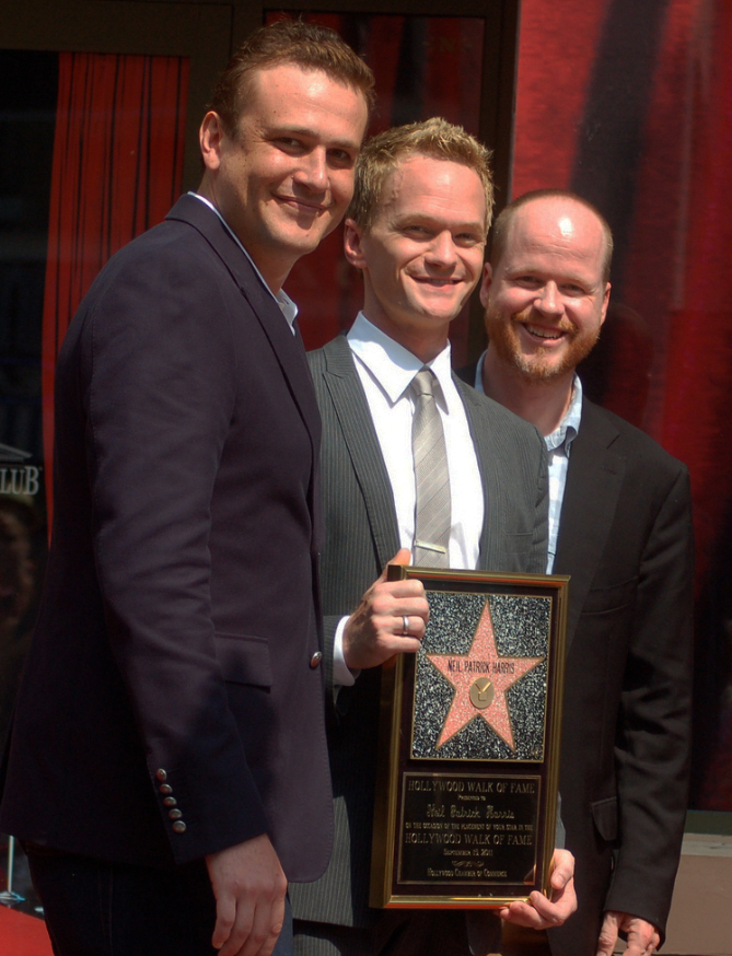 Jason Segel, Neil Patrick Harris, and Joss Whedon at a ceremony for Harris to receive a star on the Hollywood Walk of Fame in September 2011.